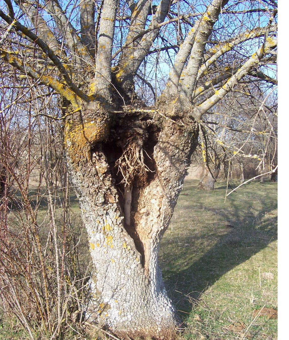 Pruned and old Fraxinus angustifolia at Soto del Real